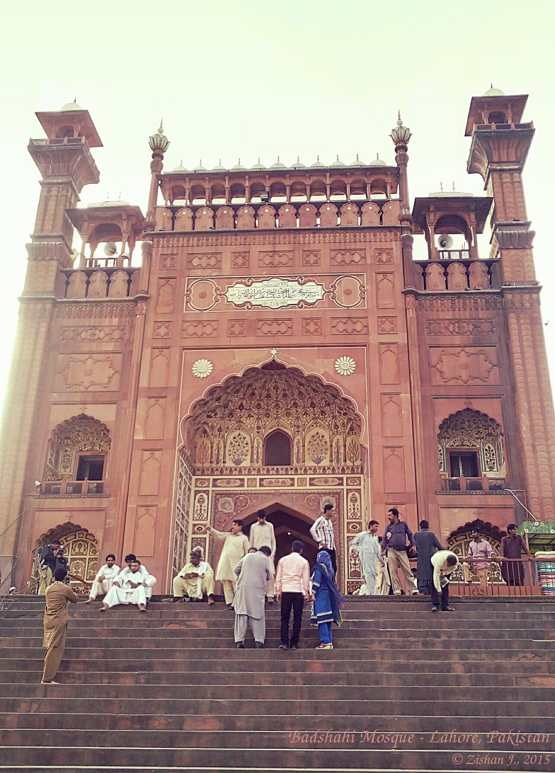 Entrance gate of Badshahi Mosque, Lahore - Pakistan showing the real name of the mosque written in calligraphy on marble above the gate. The name is read to be "Masjid Abul Zafar Muhy-ud-Din Mohammad Alamgir Badshah Ghazi".